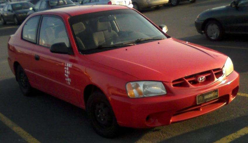 2000-2002 Hyundai Accent photographed in Vaudreuil-Dorion, Quebec, Canada.